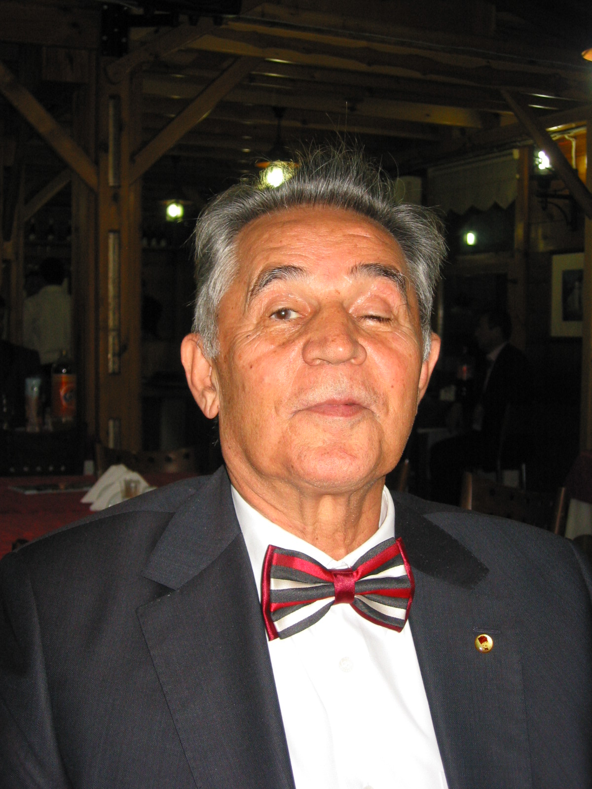 Prof. Dr. Enver Duran, Rector of the Trakya University Edirne 2011